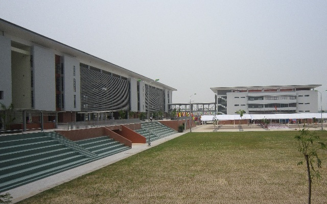 Hanoi - Amsterdam High School Back Yard in September 2010.